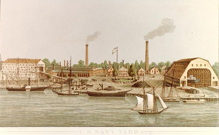 Colored lithograph published by E. Sachse & Company, Baltimore, Maryland, circa 1862. It depicts the Navy Yard as seen from above the Anacostia River, looking north, with Building # 1 and the trophy gun park in the center.